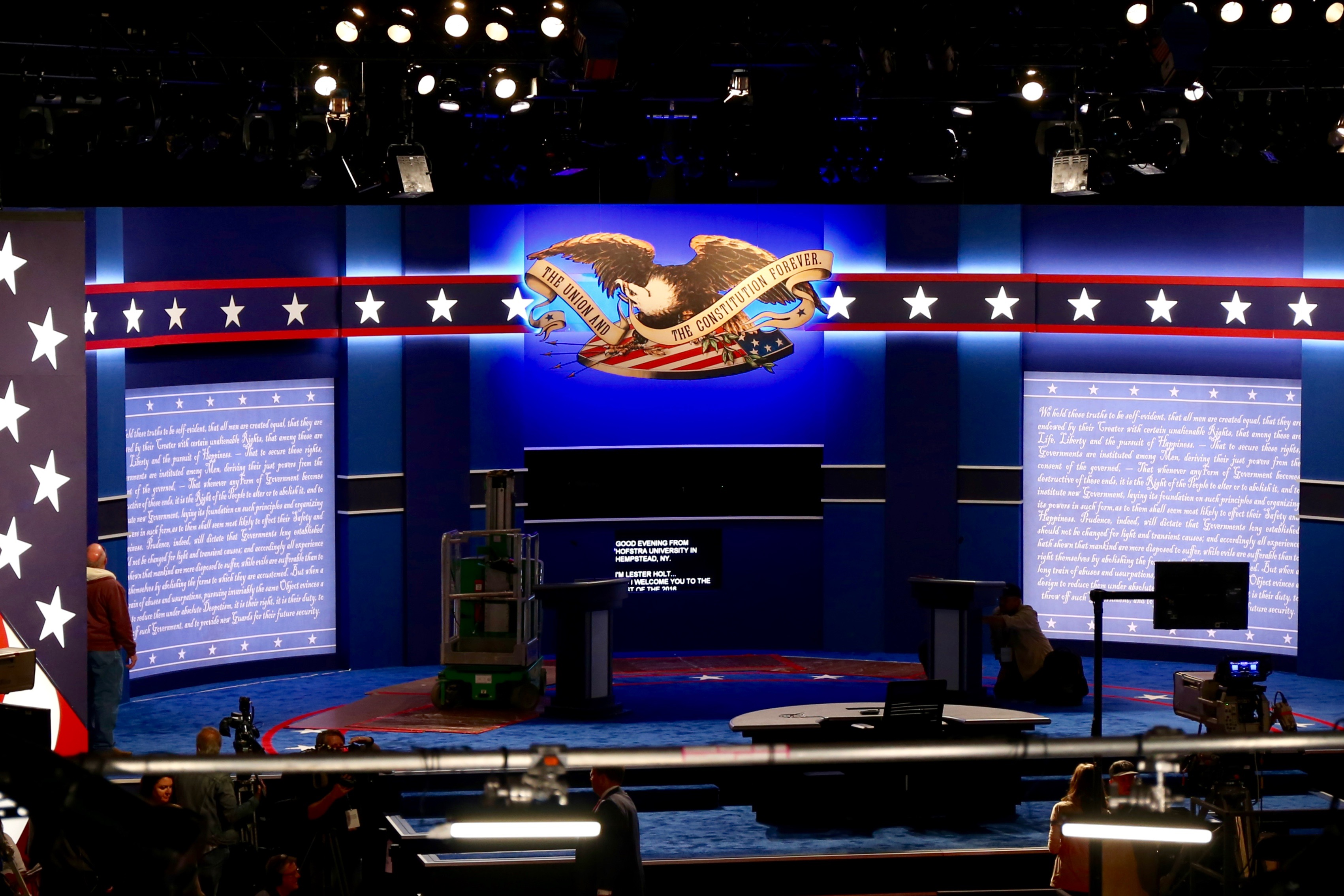 Last-minute preparations for Monday night's first presidential debate wrap up at Hofstra University.